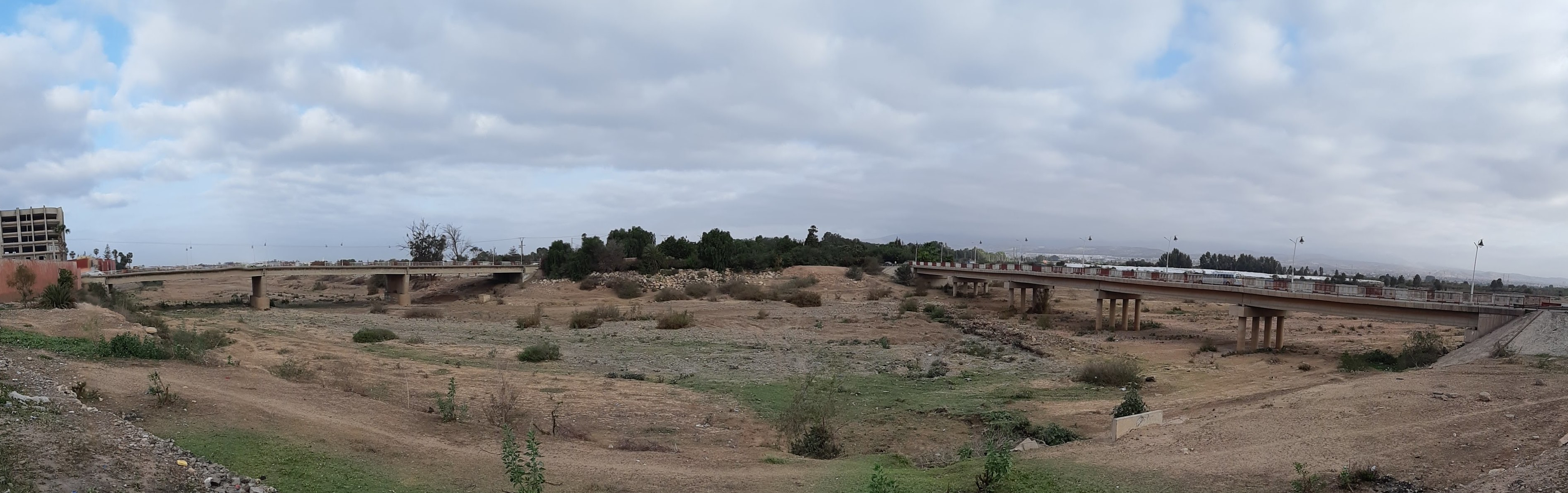 Two Ait Melloul bridges over Souss This is an image with the theme "Africa on the Move or Transport" from: Morocco